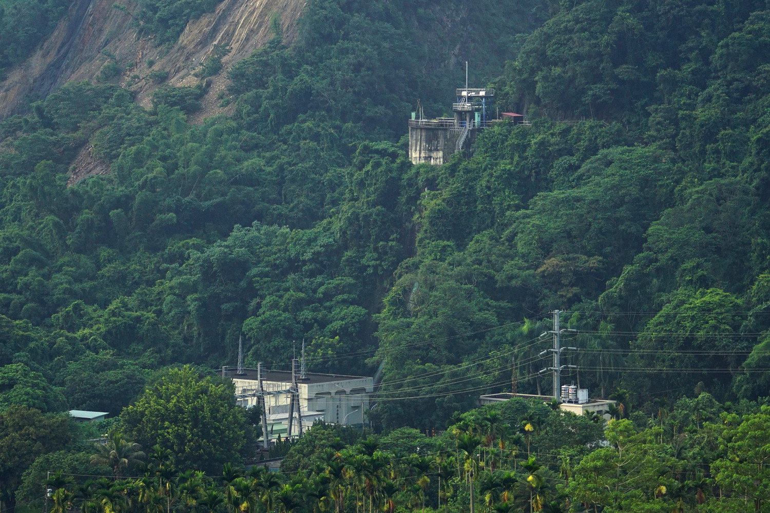 Bei Shan power plant, Taiwan中文（台灣）: 明潭發電廠北山機組（北山發電廠）